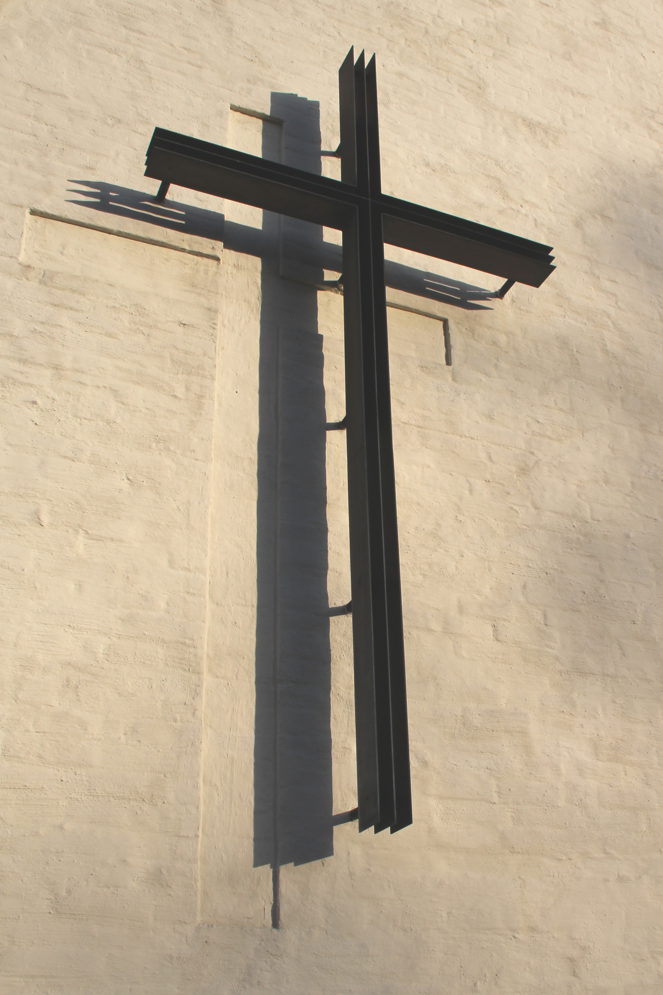 Honkanummi Cemetery Chapels in Honkanummi Cemetery, Vantaa, Finland. Designed by architect Erik Bryggman, completed in 1955. Cross on the wall of the Little Chapel.